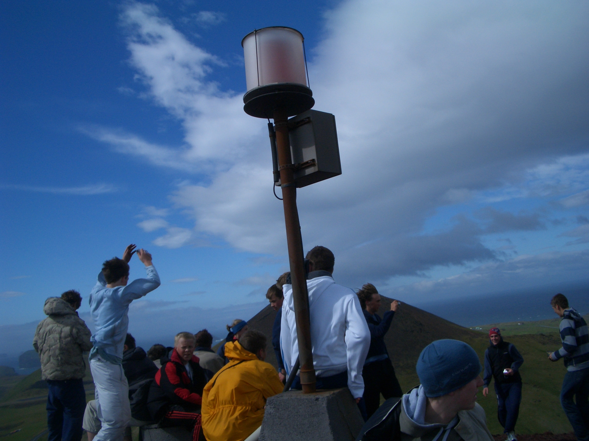 Original caption: Those who climbed to the top of Eldfell all gathered around a beacon which is what we were climbing to. Look at hair and clothes to see how windy it was! (very windy)